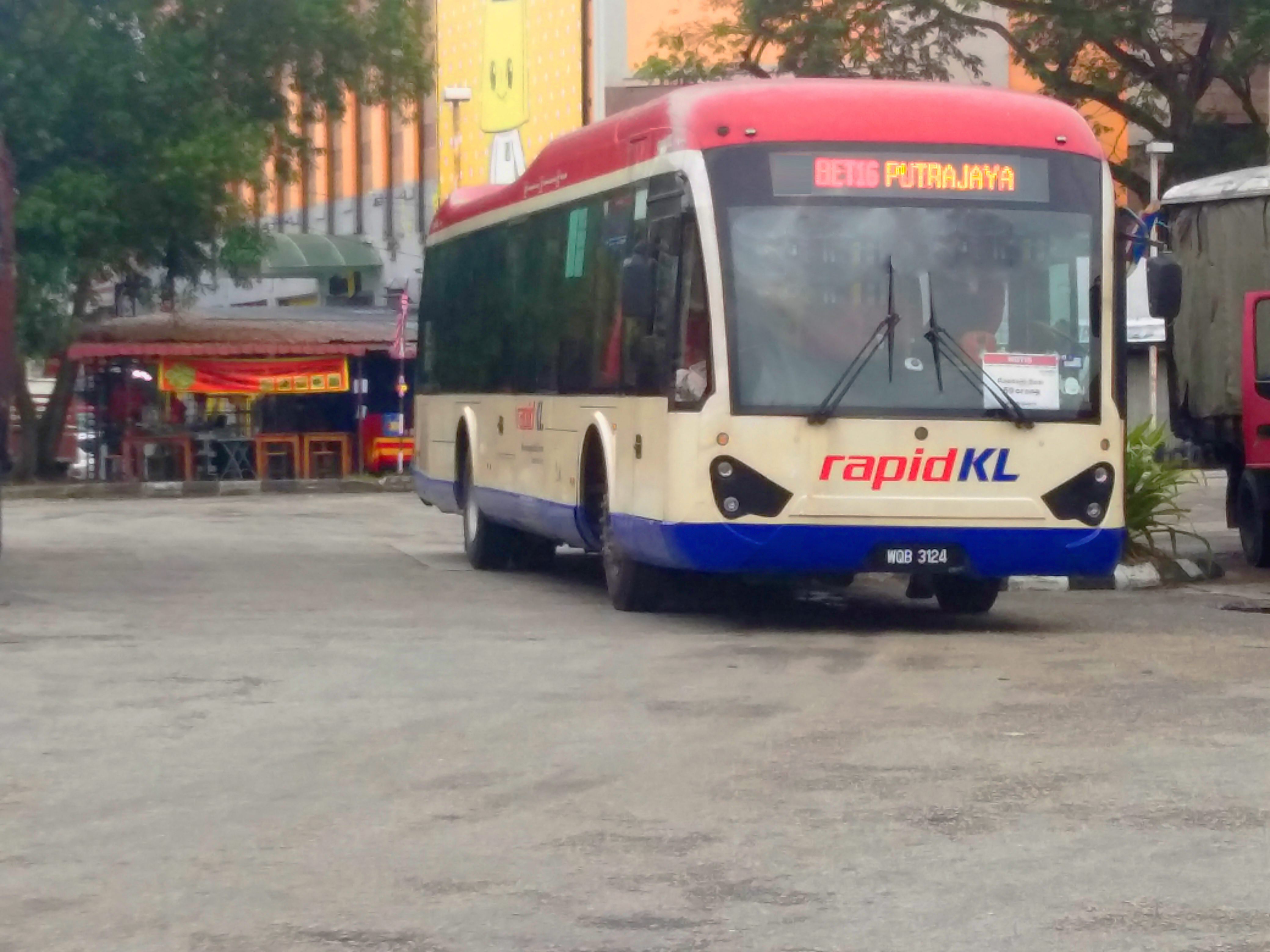 A BET16 bus just arrive at Warta Baru bus stop at the evening.